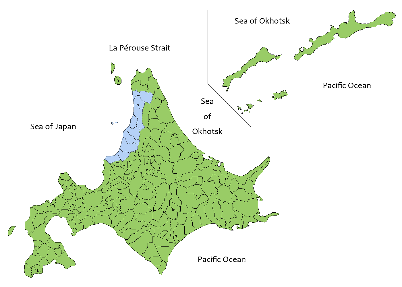 Map of Rumoi subprefecture in English